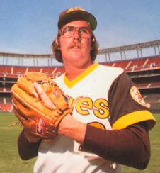 Professional baseball player Mark Lee